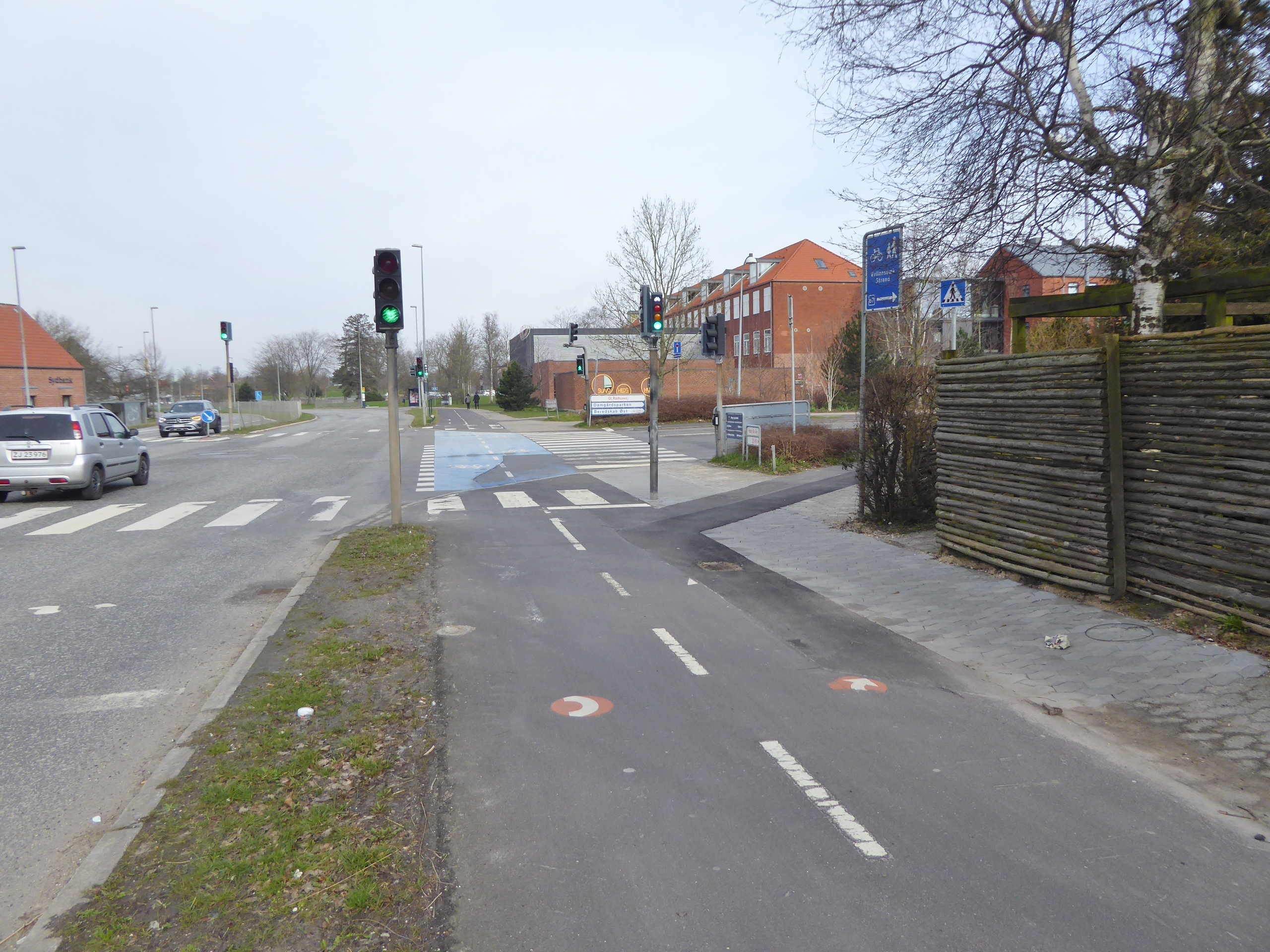 The super bikeway C84 Ring 4-ruten on Hold-An Vej in Ballerup in Copenhagen.